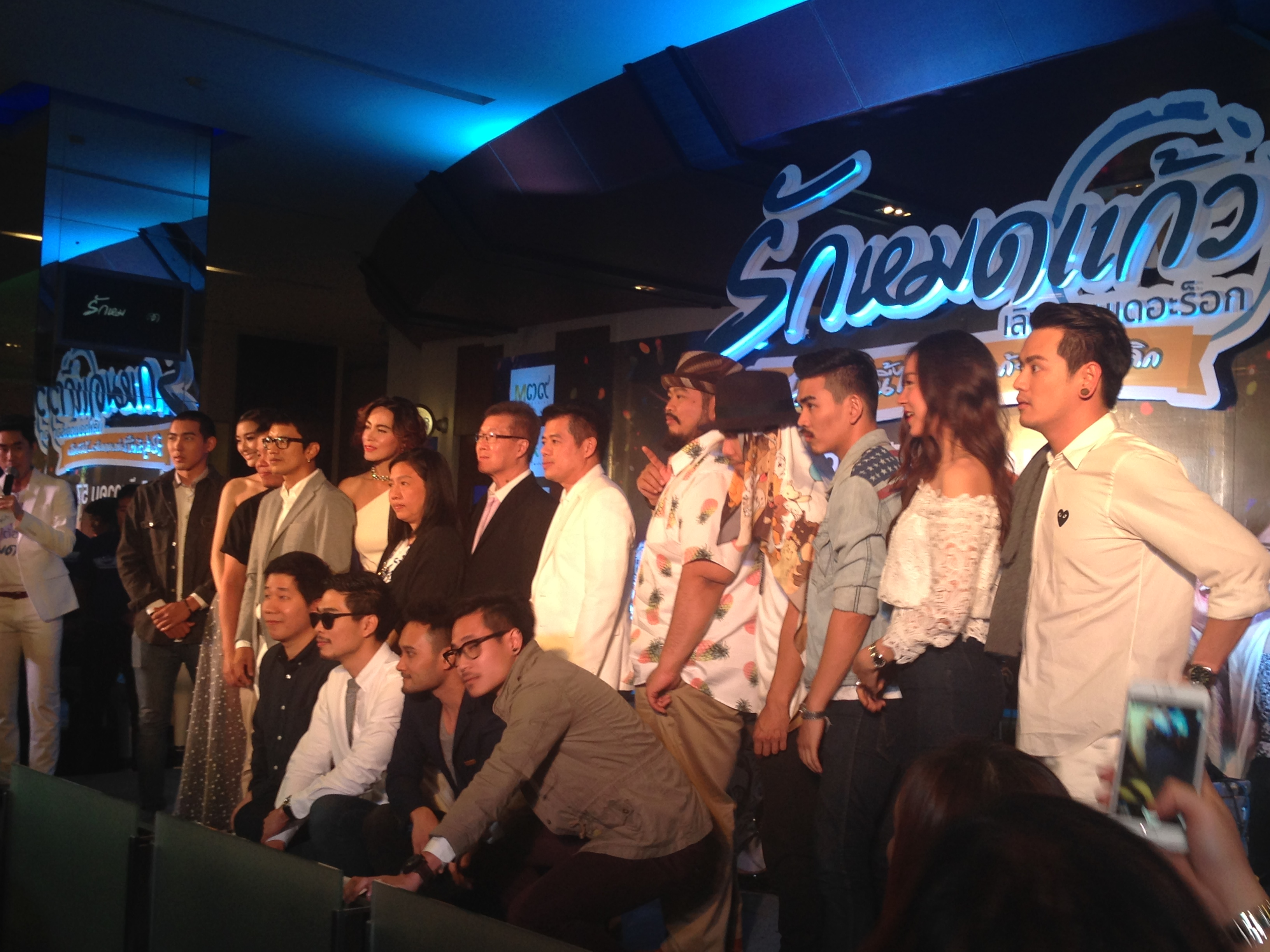 Cast of Love on the rocks.